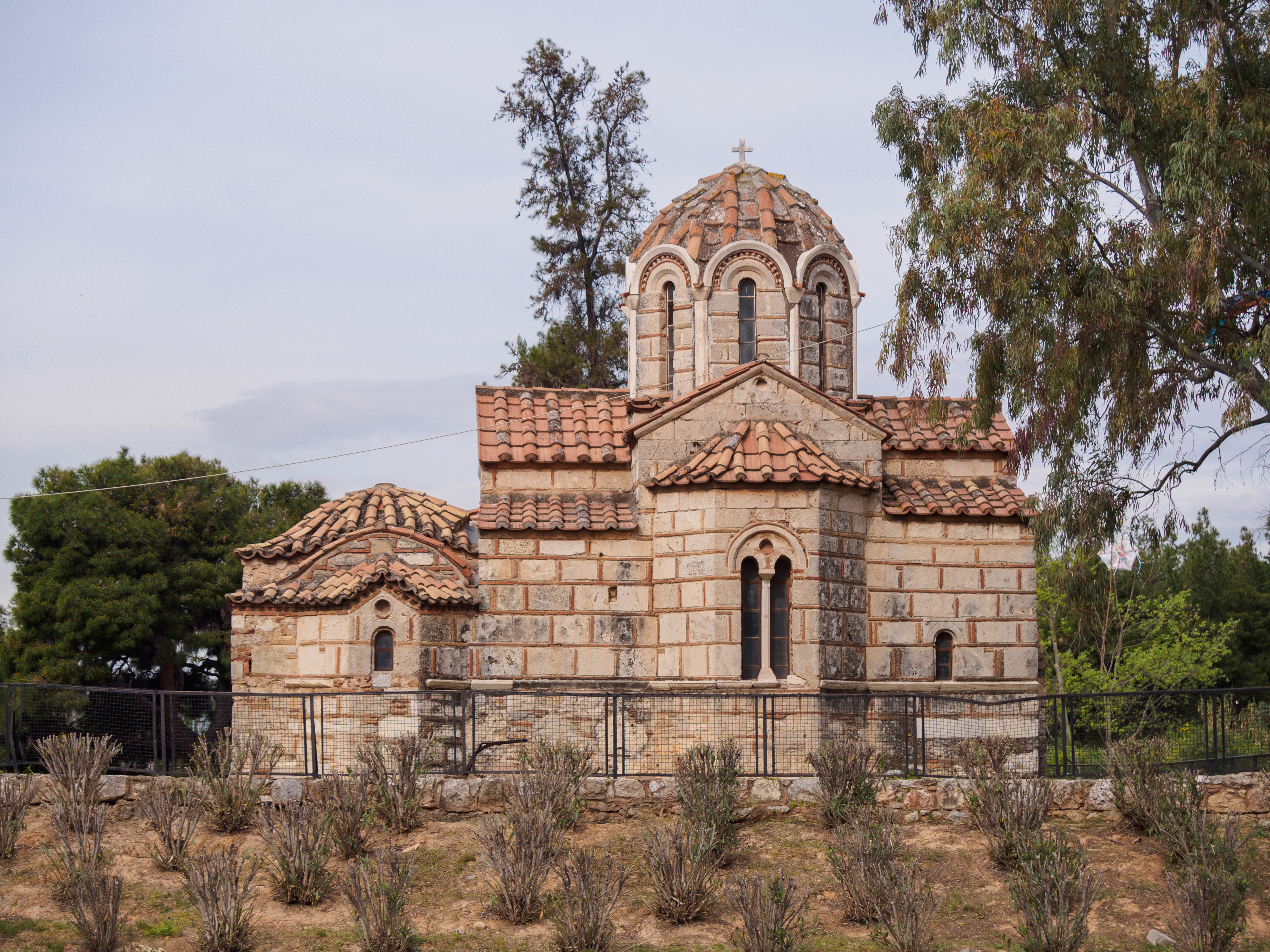 East view of the byzantine church of Saint George in Galatsi, Athens, also known as Omorfokklisia.